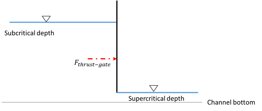 dynamic force acting on a sluice gate